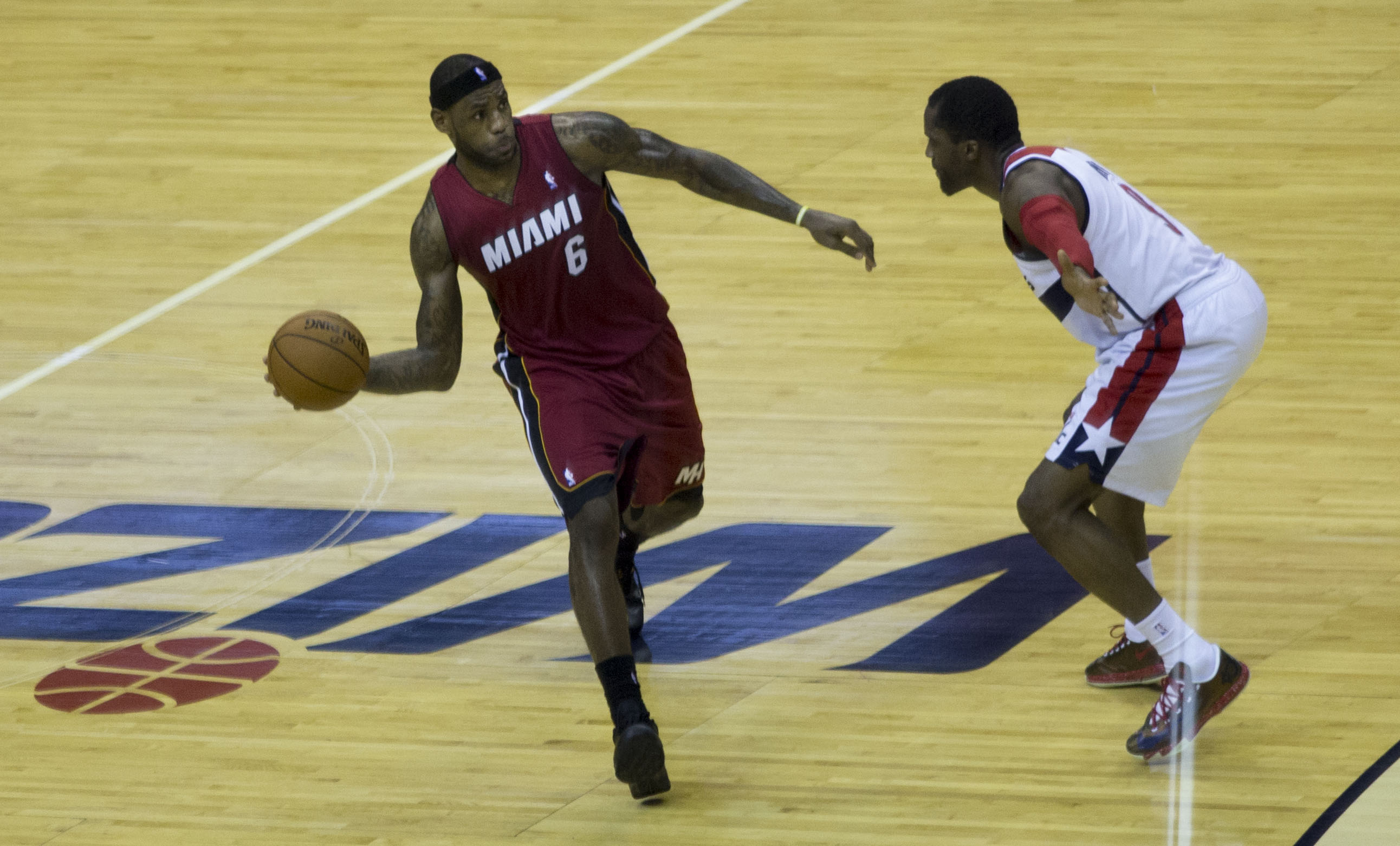 Heat at Wizards 1/15/14